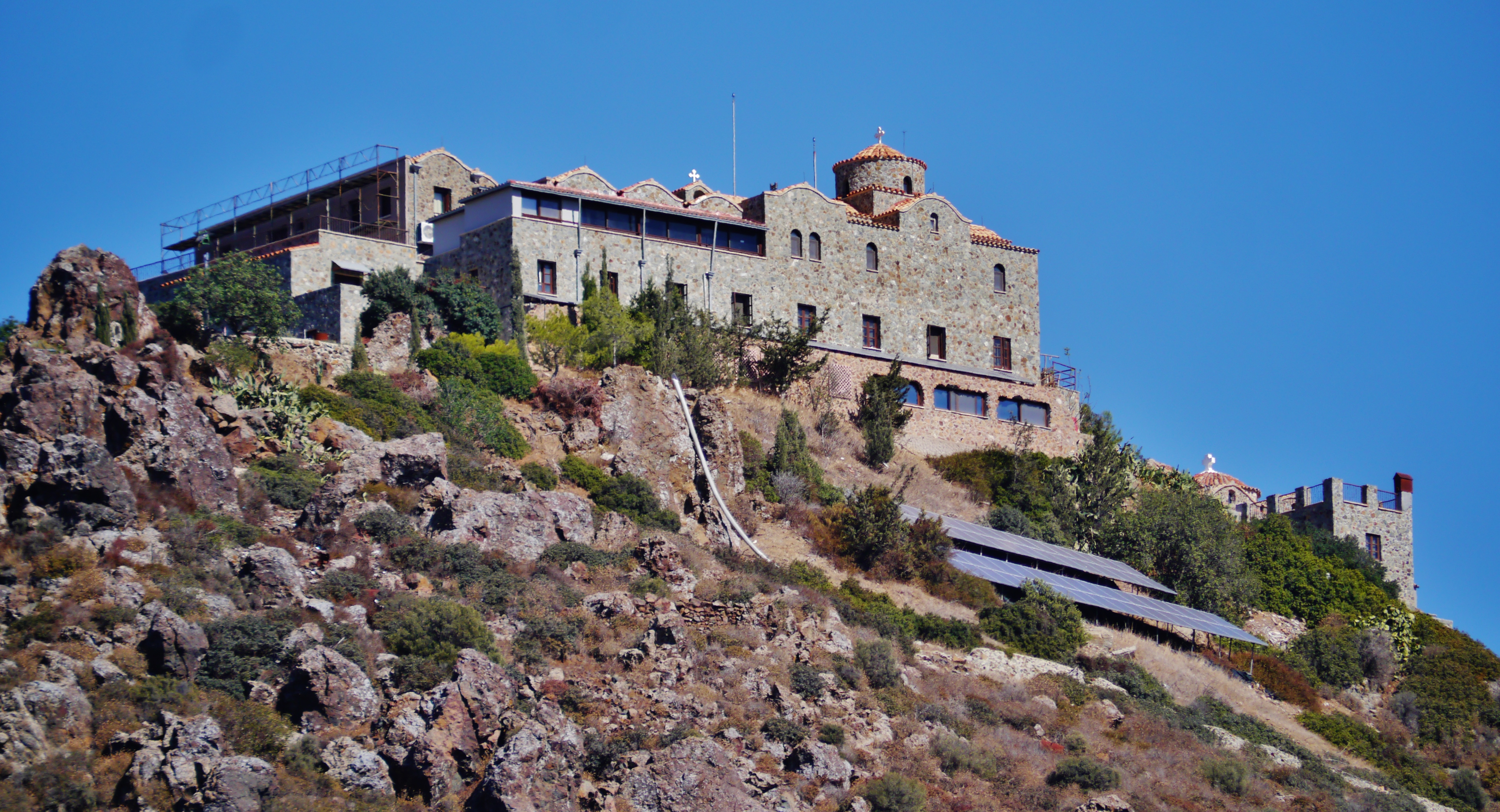 Stavrovouni Monastery, Cyprus Notification: Cameras and Smartphones are strictly forbidden on the Monastery Grounds. You need to leave them at the Reception. When you are caught while taking photos, the Monks will take you Device and keep it, they are mercyless in this Point. This Photo was taken from the Acces Road, where Cameras are allowed. Women are NOT allowed at the Monastery Ground and will be hampered to enter.(The Monastery is worth the Visit anyway...for Men)